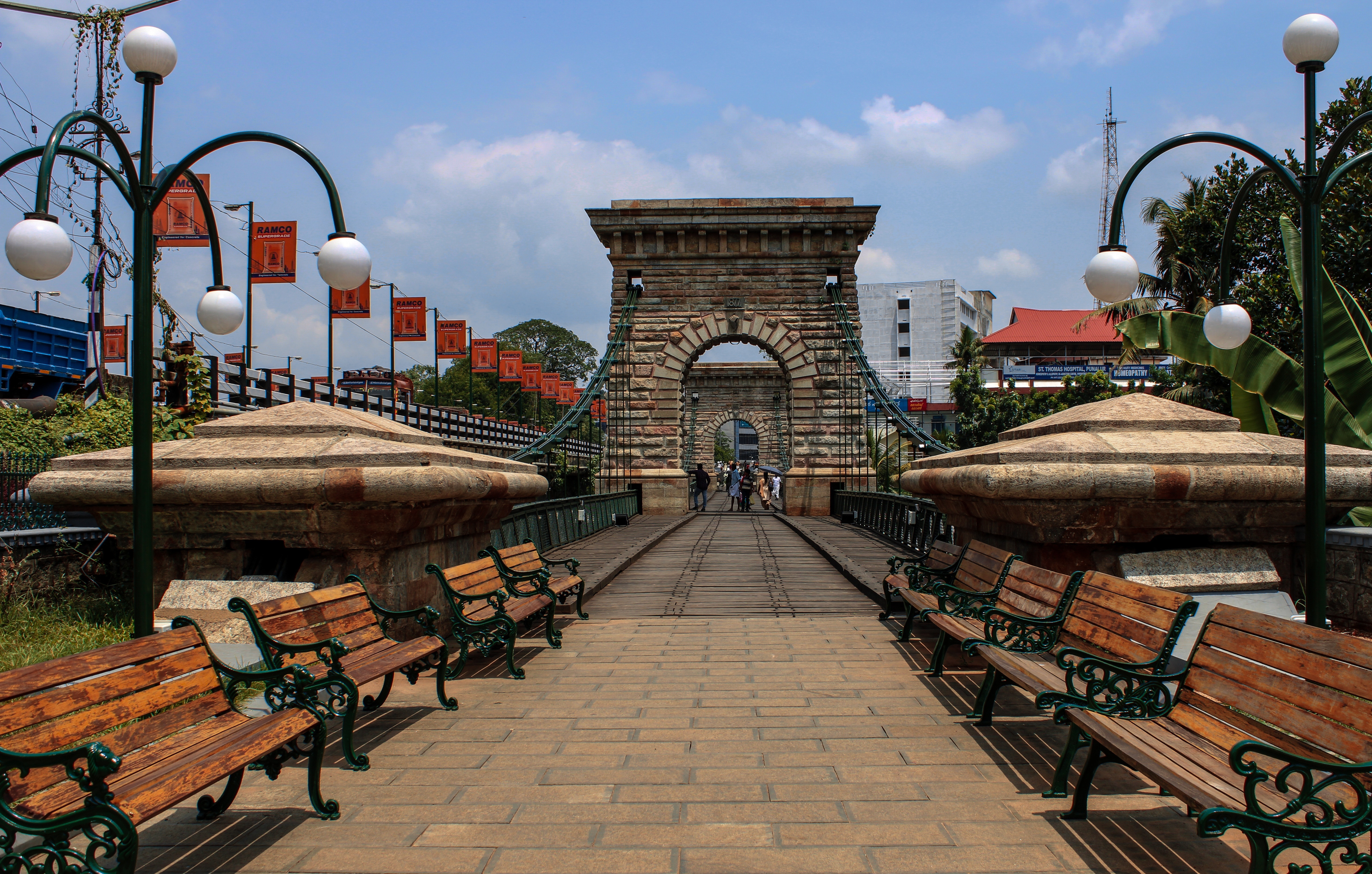 Punalur Suspension Brige